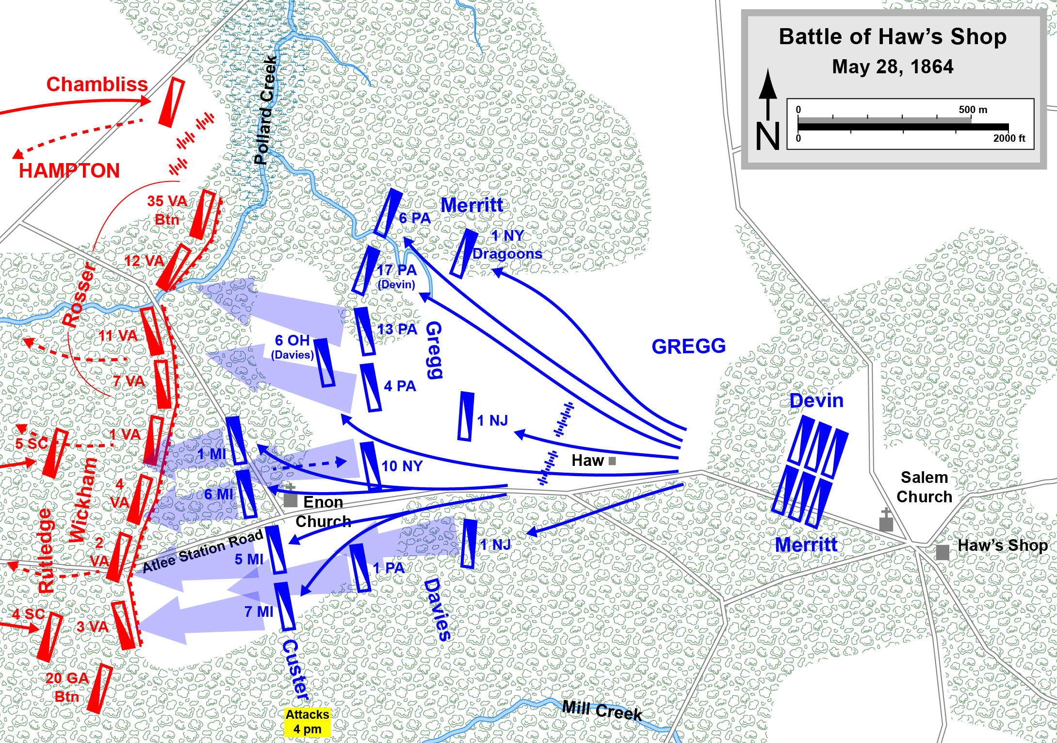 Map of the Battle of Haw's Shop of the American Civil War, drawn in Adobe Illustrator CS5 by Hal Jespersen. Graphic source file is available at Attribution: Map by Hal Jespersen